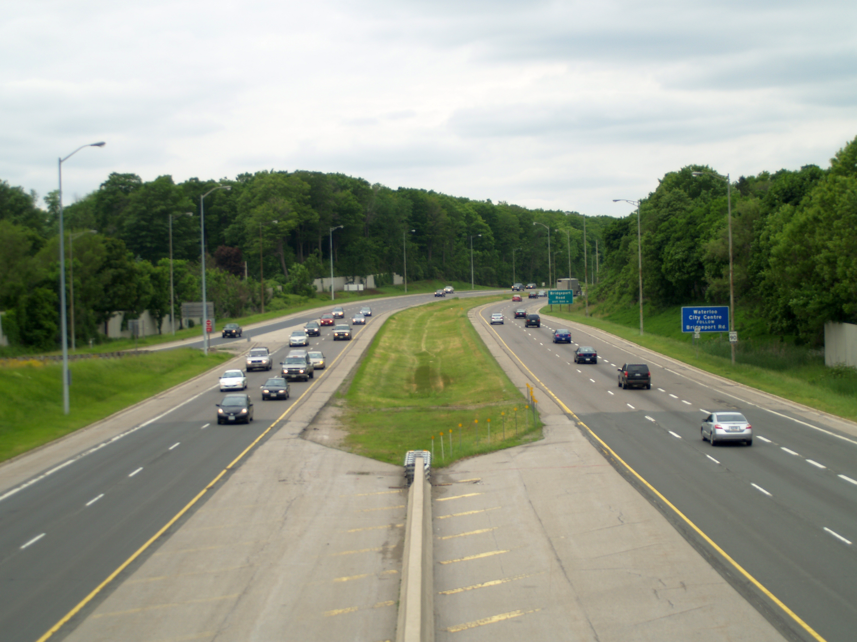 Highway 85 northbound in Waterloo from the Lancaster Street overpass.